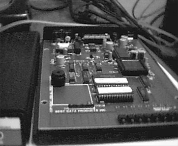 photography of the bestdata inc. smart one 2400 modem